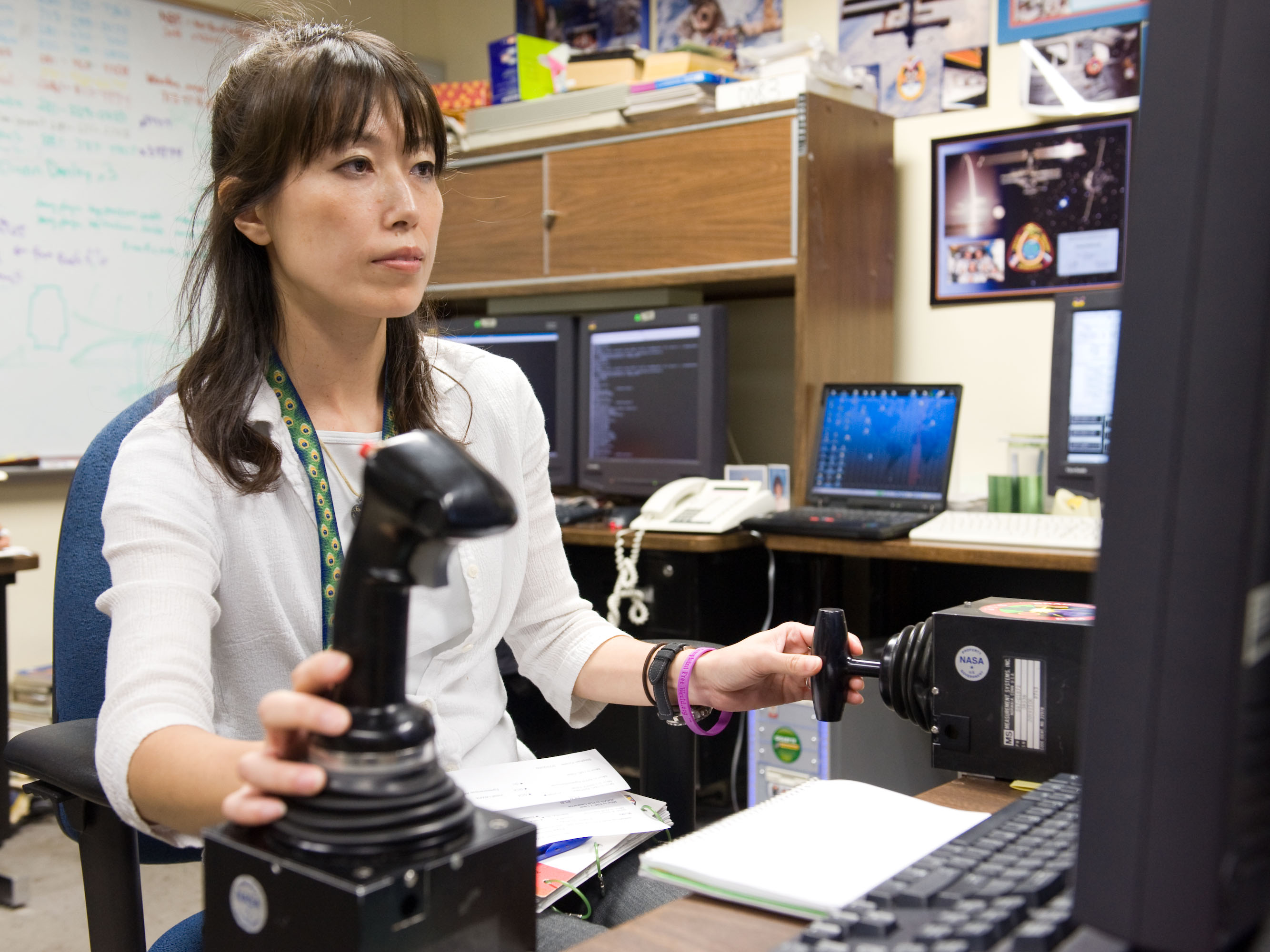 Japan Aerospace Exploration Agency (JAXA) astronaut Naoko Yamazaki, STS-131 mission specialist, uses the virtual reality lab in the Space Vehicle Mock-up Facility at NASA's Johnson Space Center to train for some of her duties aboard the space shuttle and space station. This type of computer interface, paired with virtual reality training hardware and software, helps to prepare the entire team for dealing with space station elements